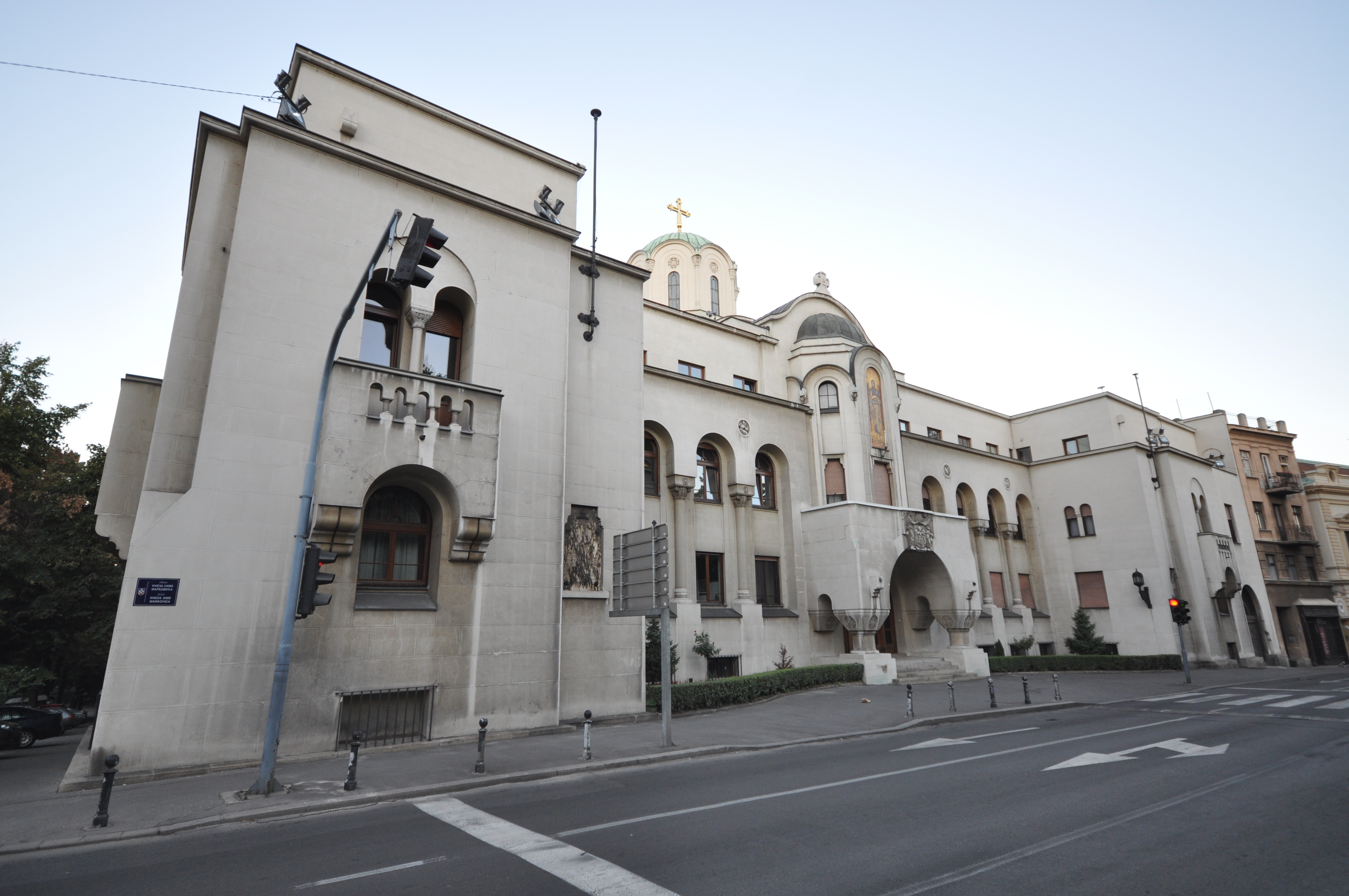 The building of the Patriarchate at Prince Sima Markovic 6 was built from 1932 to 1935. Designed by the Russian architect Viktor Lukomskog in the spirit of academic architecture, and akademizirane using variants of Serbo-Byzantine style. It represents a monumental building that houses the supreme governing body of the Serbian Orthodox Church.